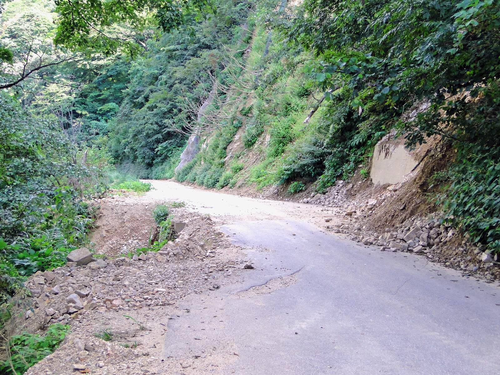 Betumata_SougadakeSen